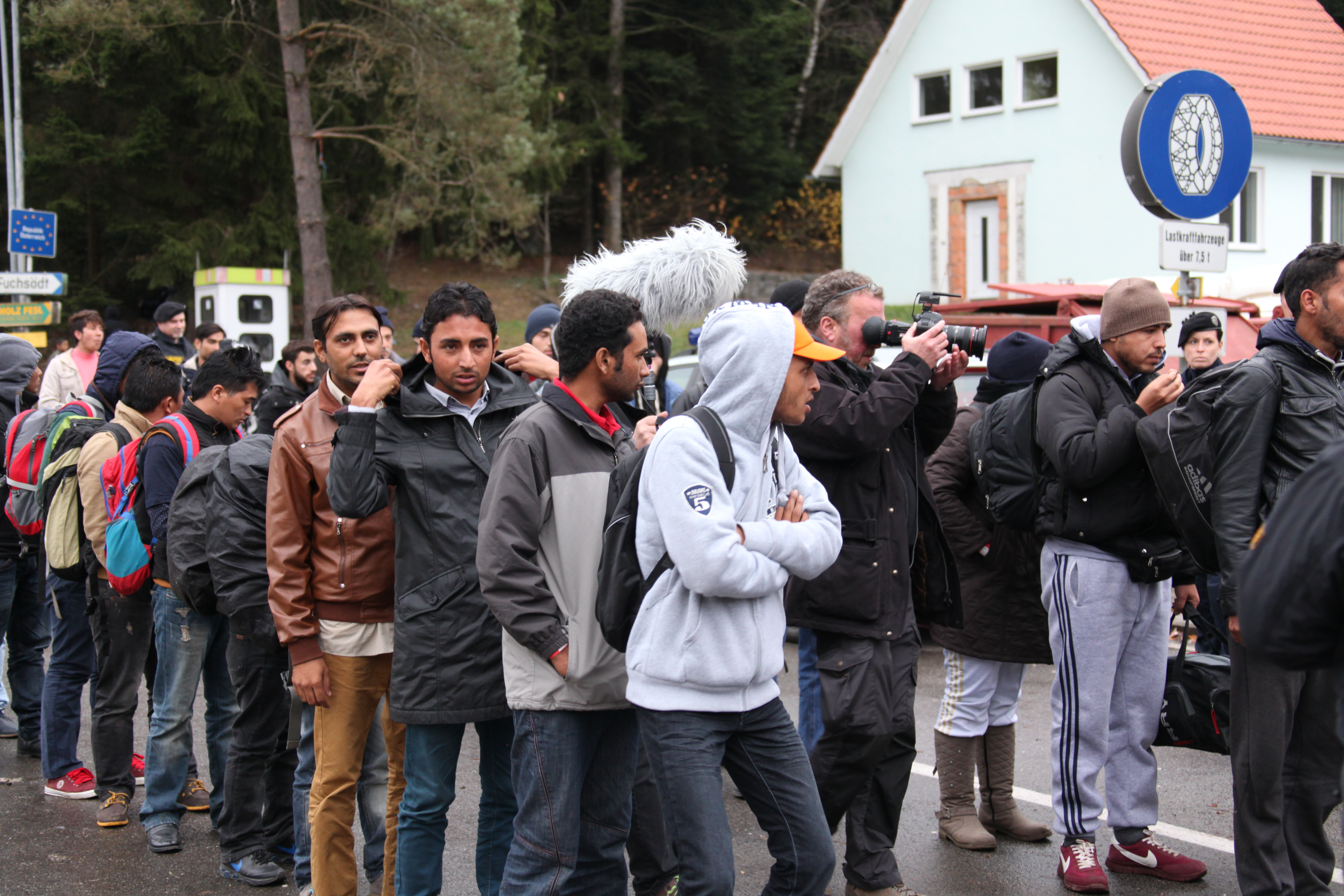 Grenzübergang Oberösterreich / Deutschland Immigrantenabfertigung 17.11.2015 - WEGSCHEID-HANGING Personality rights warning Although this work is freely licensed or in the public domain, the person(s) shown may have rights that legally restrict certain re-uses unless those depicted consent to such uses. In these cases, a model release or other evidence of consent could protect you from infringement claims.